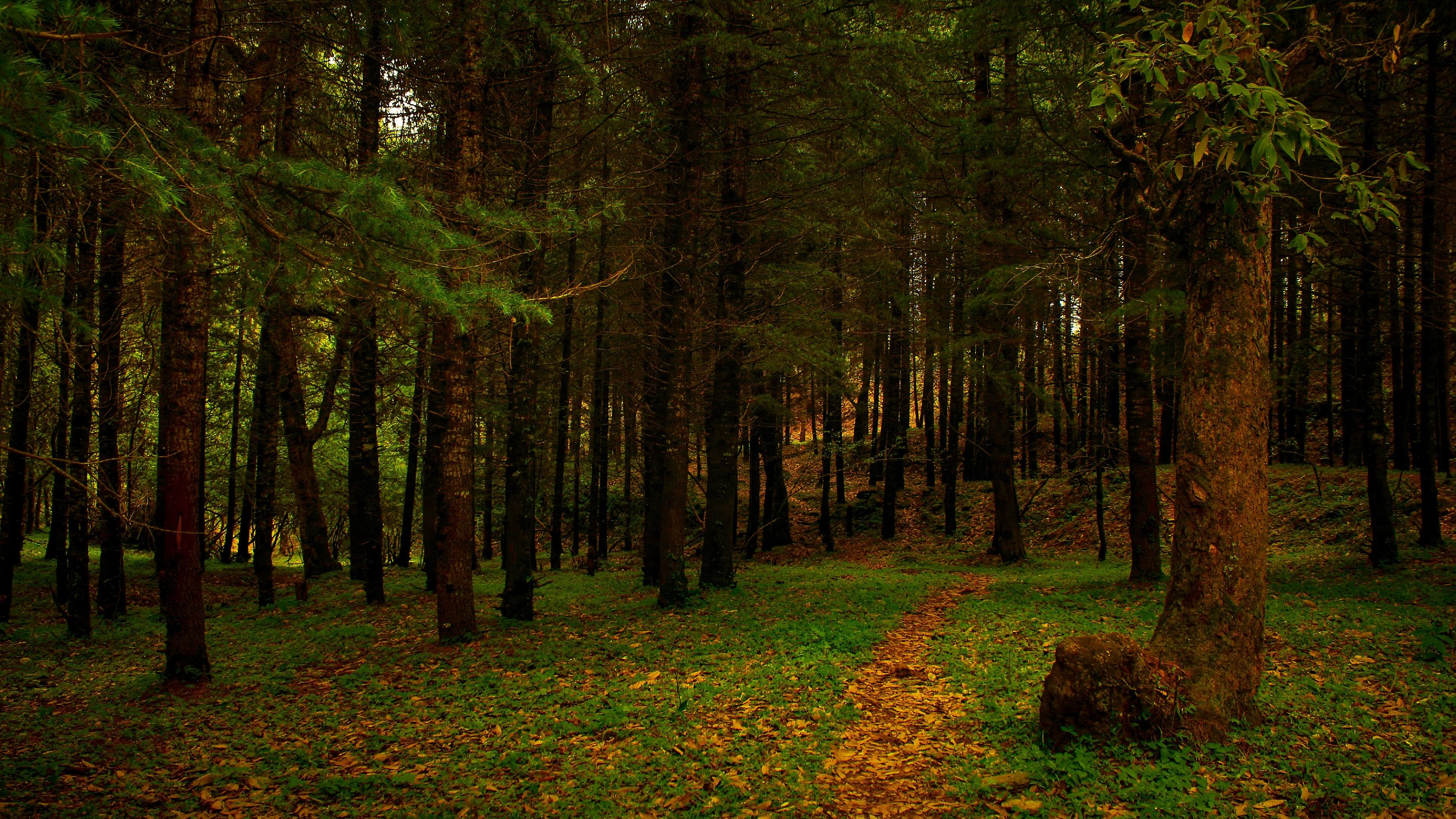 Woods near Binsar Mahadev Temple